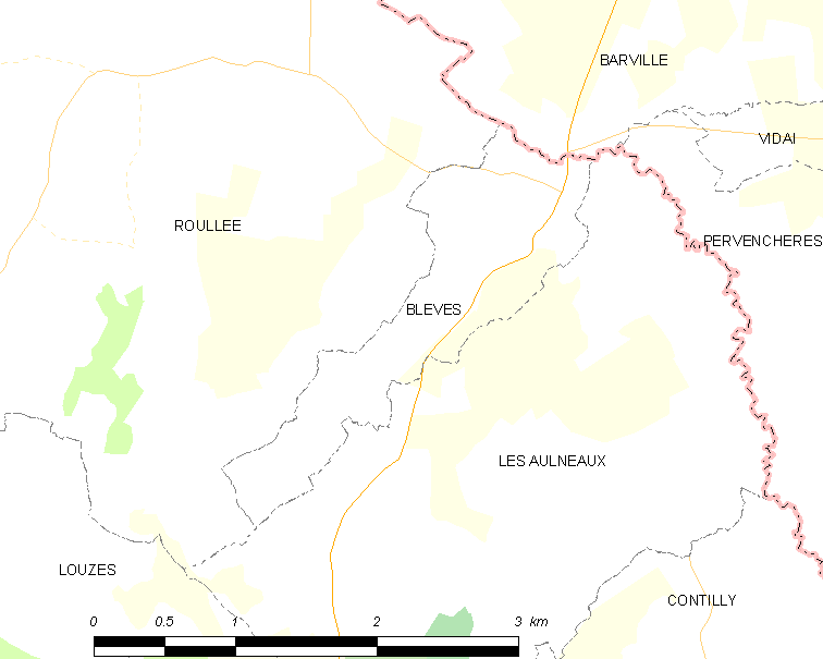 Map of French municipality